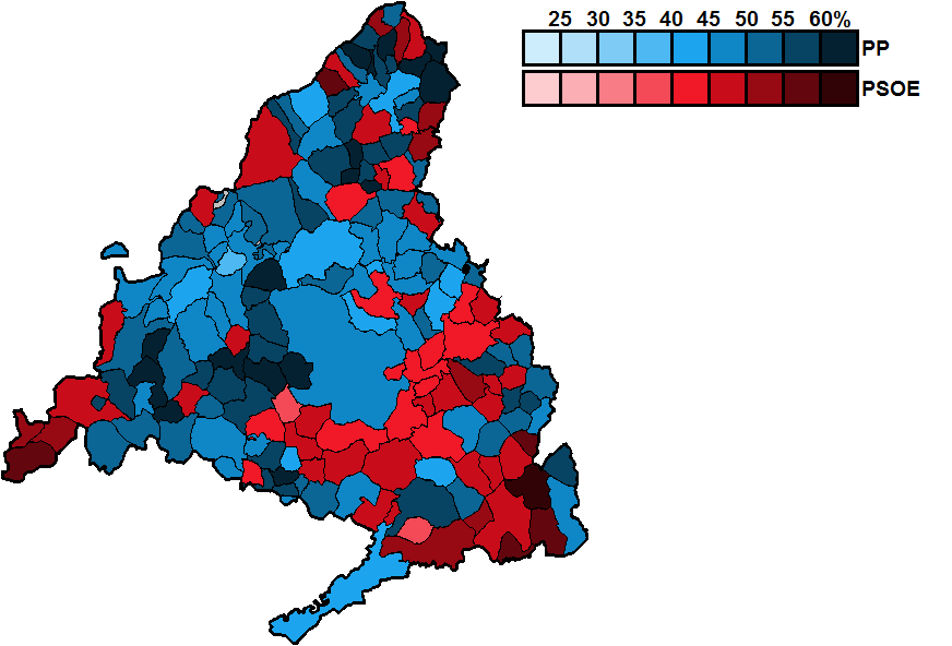 Most-voted party in Madrid municipalities, showing vote share obtained, in the Spanish general election, 1993.